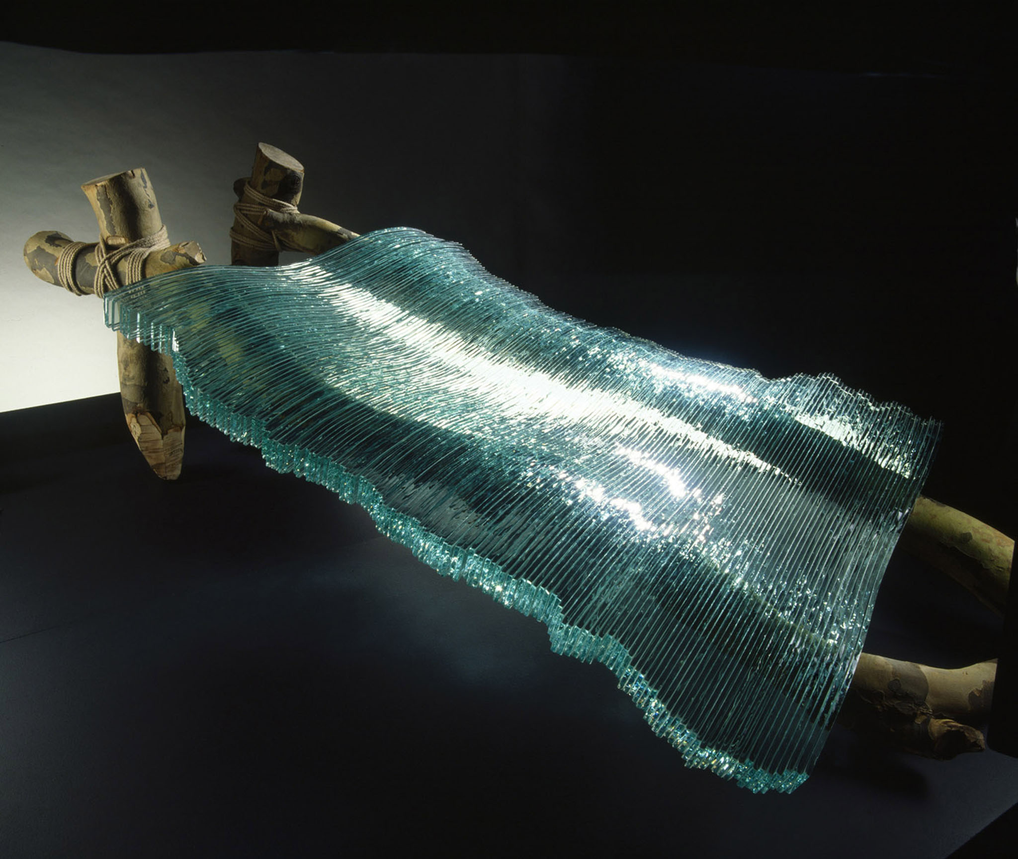 Angaraib, Danny Lane,1987